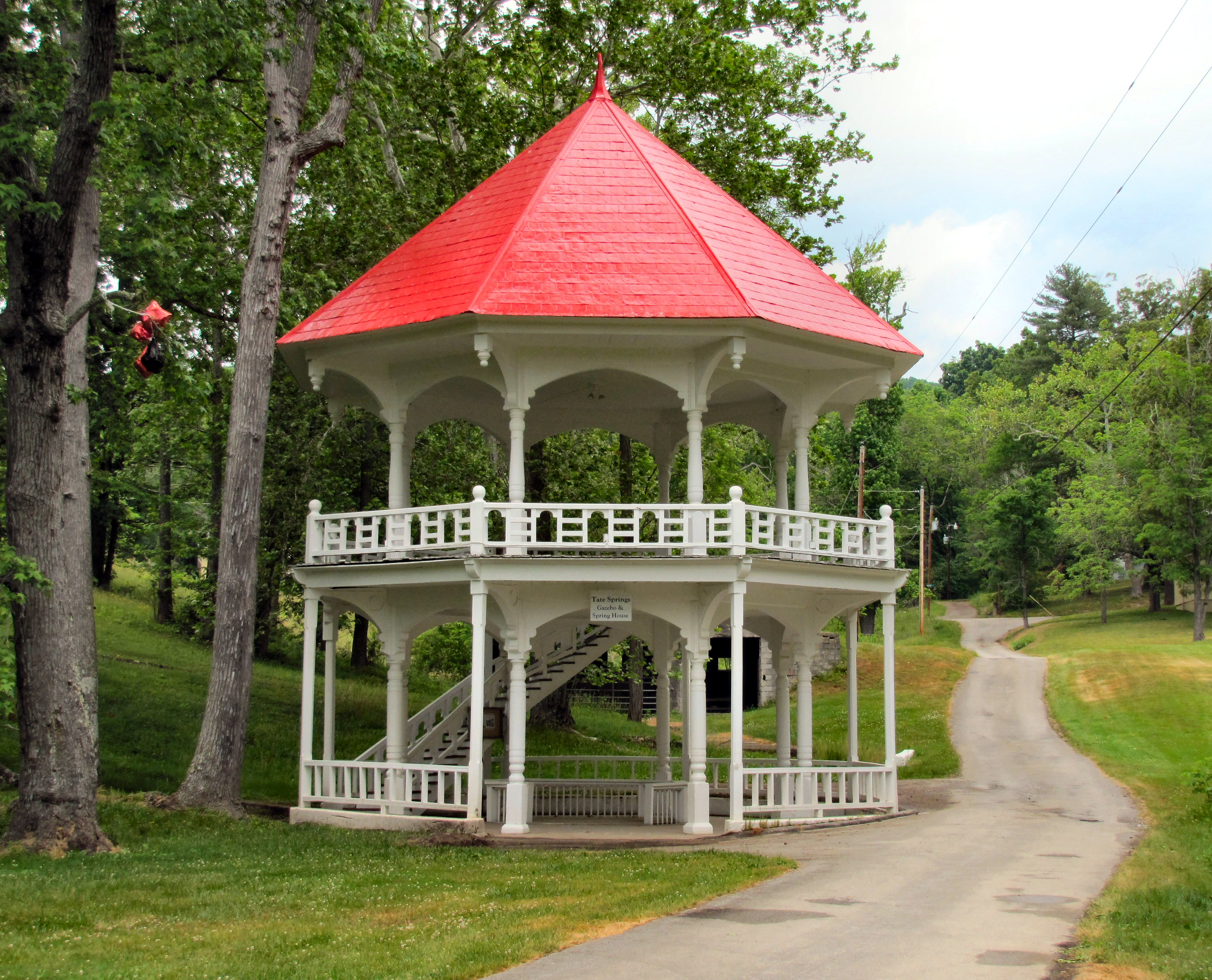 The Tate Springs Springhouse and Gazebo in Bean Station, Tennessee, United States. This springhouse served the nearby Tate Spring Hotel (no longer standing) in the early 20th century, and is listed on the National Register of Historic Places.